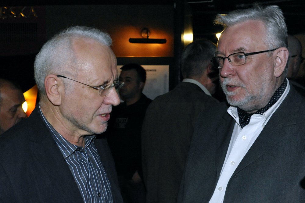 Paweł Brodowski (left) - the editor of Jazz Forum, a jazz publication issued in Poland since 1965.